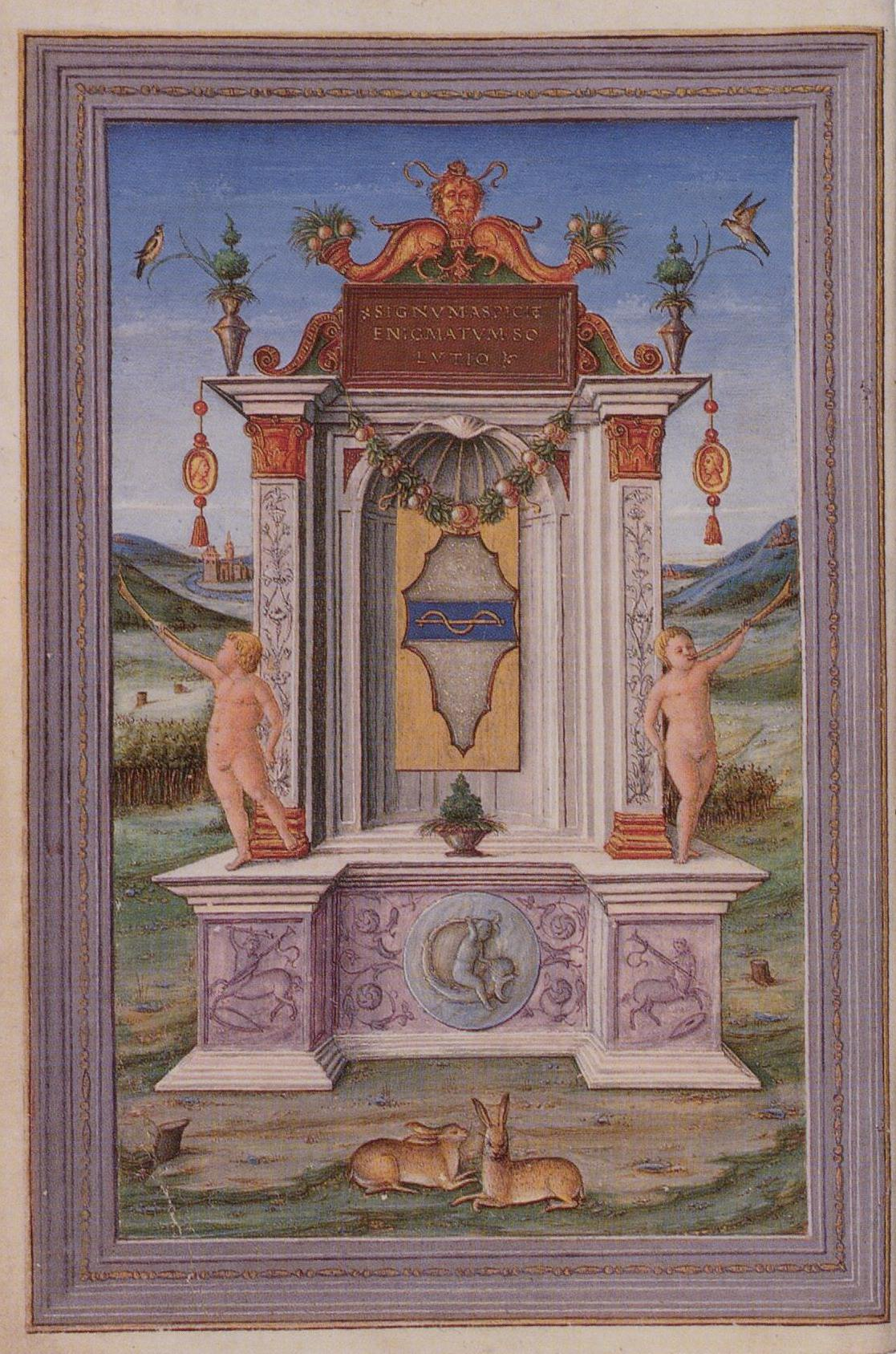 Den Haag, Koninklijke Bibliotheek, 169 D 2, fol. IV